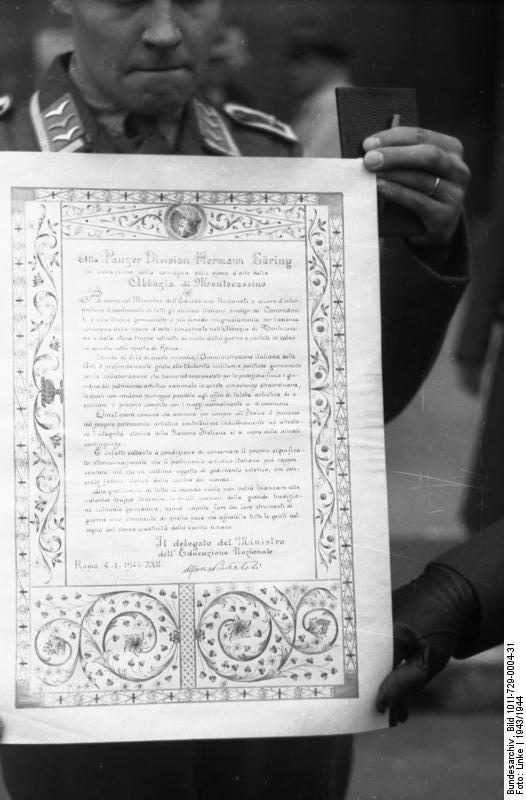 Information added by Wikimedia users.*